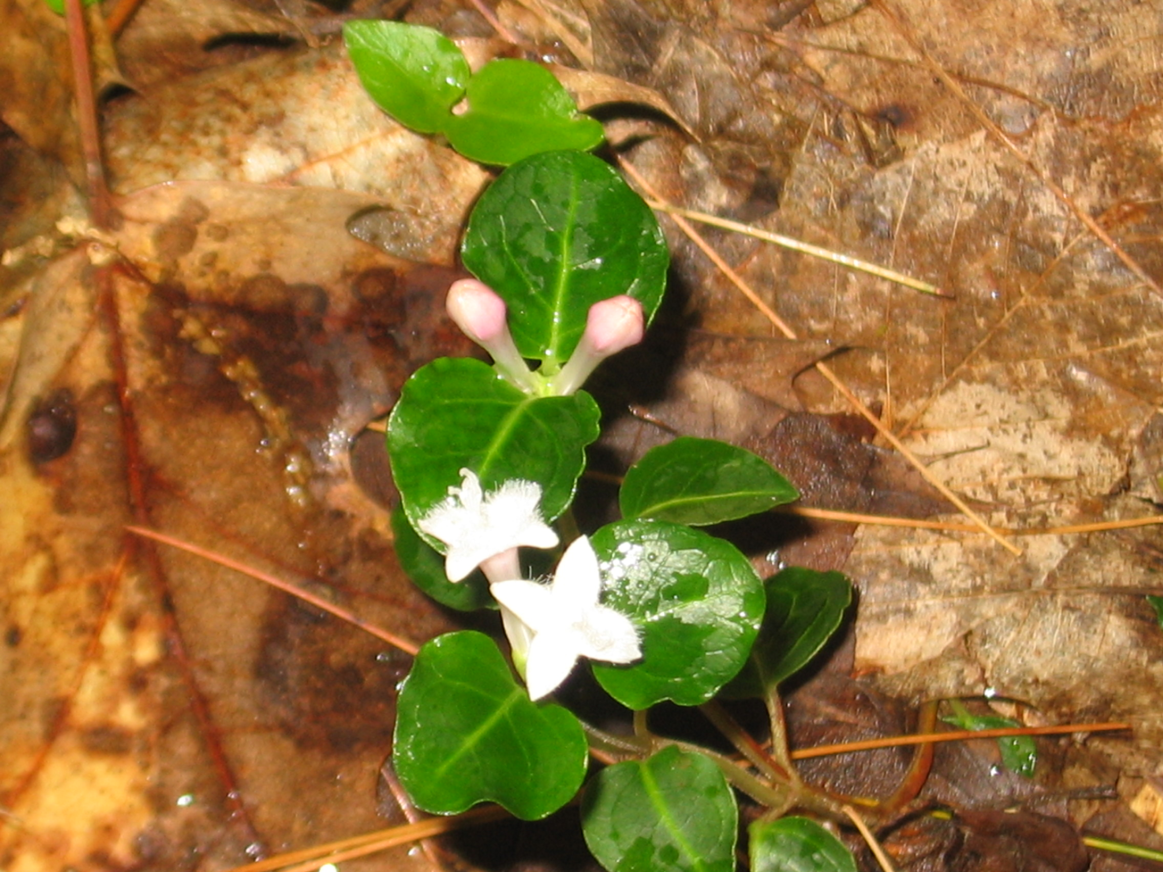 Photo showing the foliage, inflorescence, and an unopened flower of Mitchella repens.